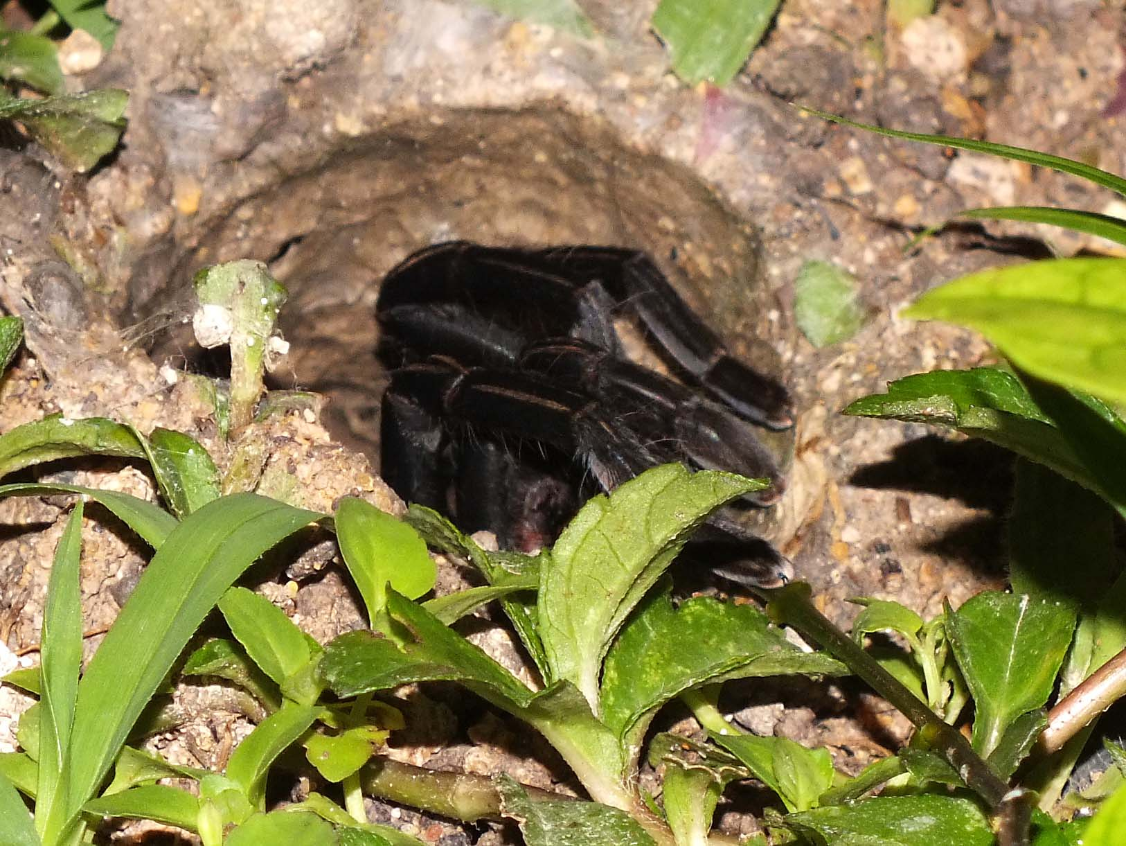 Female Cyriopagopus minax (Syn. Haplopelma minax) in it's burrow.